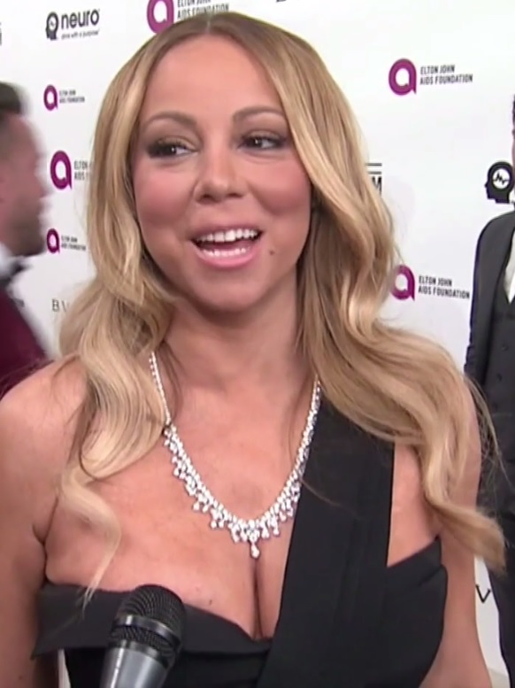 Mariah Carey at the Elton John Oscar Party in 2016